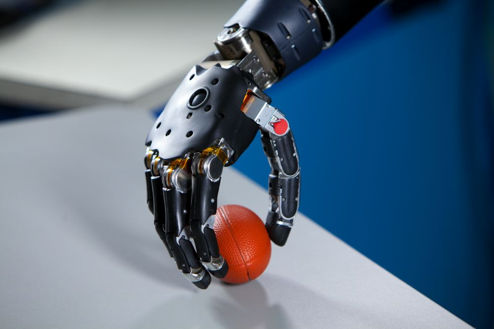 FDA launched a medical device innovation initiative that included pathway for new, breakthrough medical devices. The agency also announced the first project that will pilot the innovation program. It is a brain-controlled, prosthetic arm funded by the DARPA. Photo courtesy of The Johns Hopkins University Applied Physics Laboratory (JHU/APL)